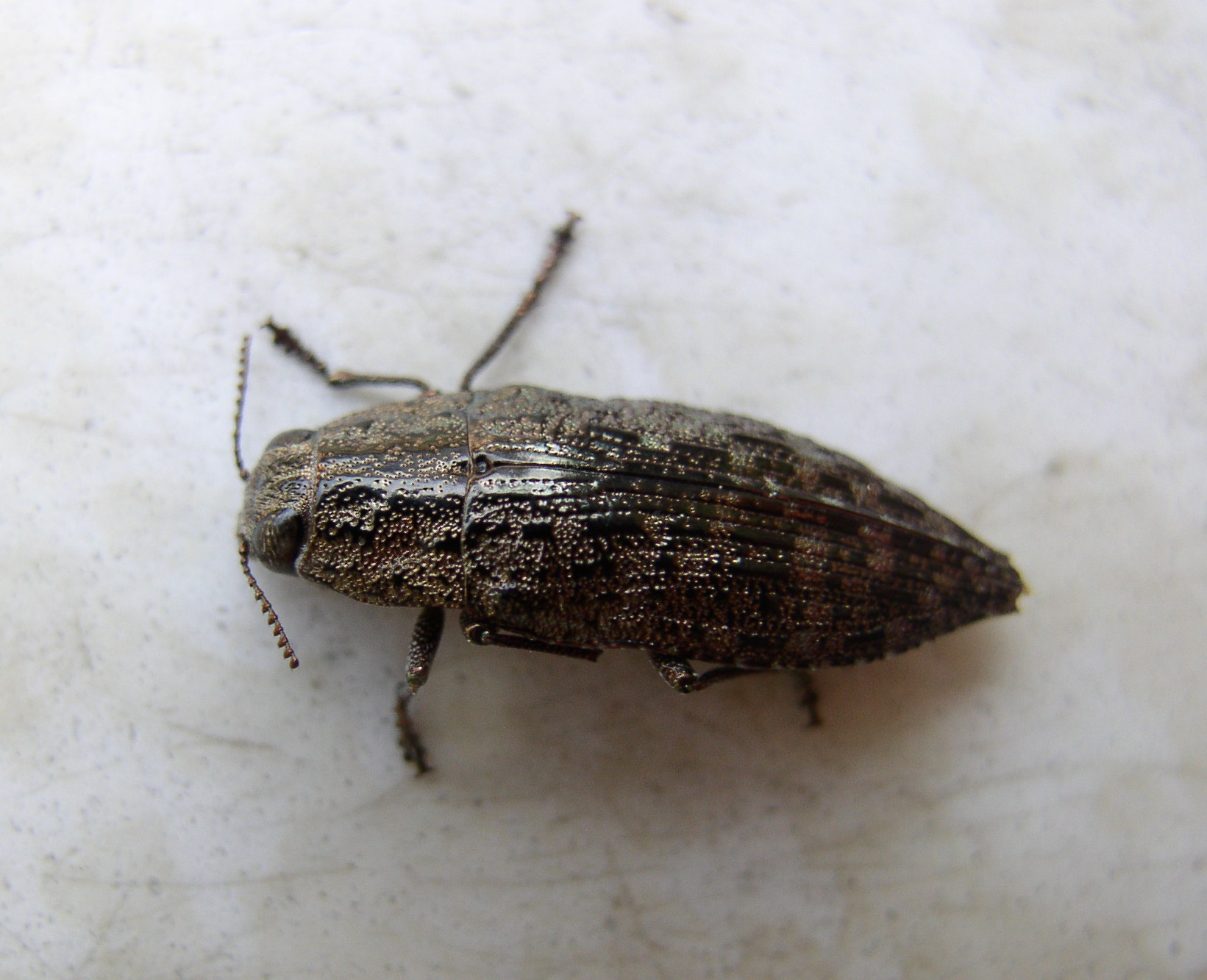 Metallic wood boring beetle, Dicerca obscura. Willow Grove, Montgomery County, Pennsylvania, USA.